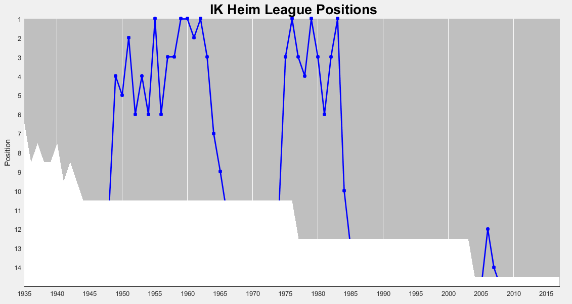 IK Heim positions in the top division. The grey area denotes the number of teams in the top division. For split seasons, the autumn positions are shown when the team did not play in the top division in the spring season.